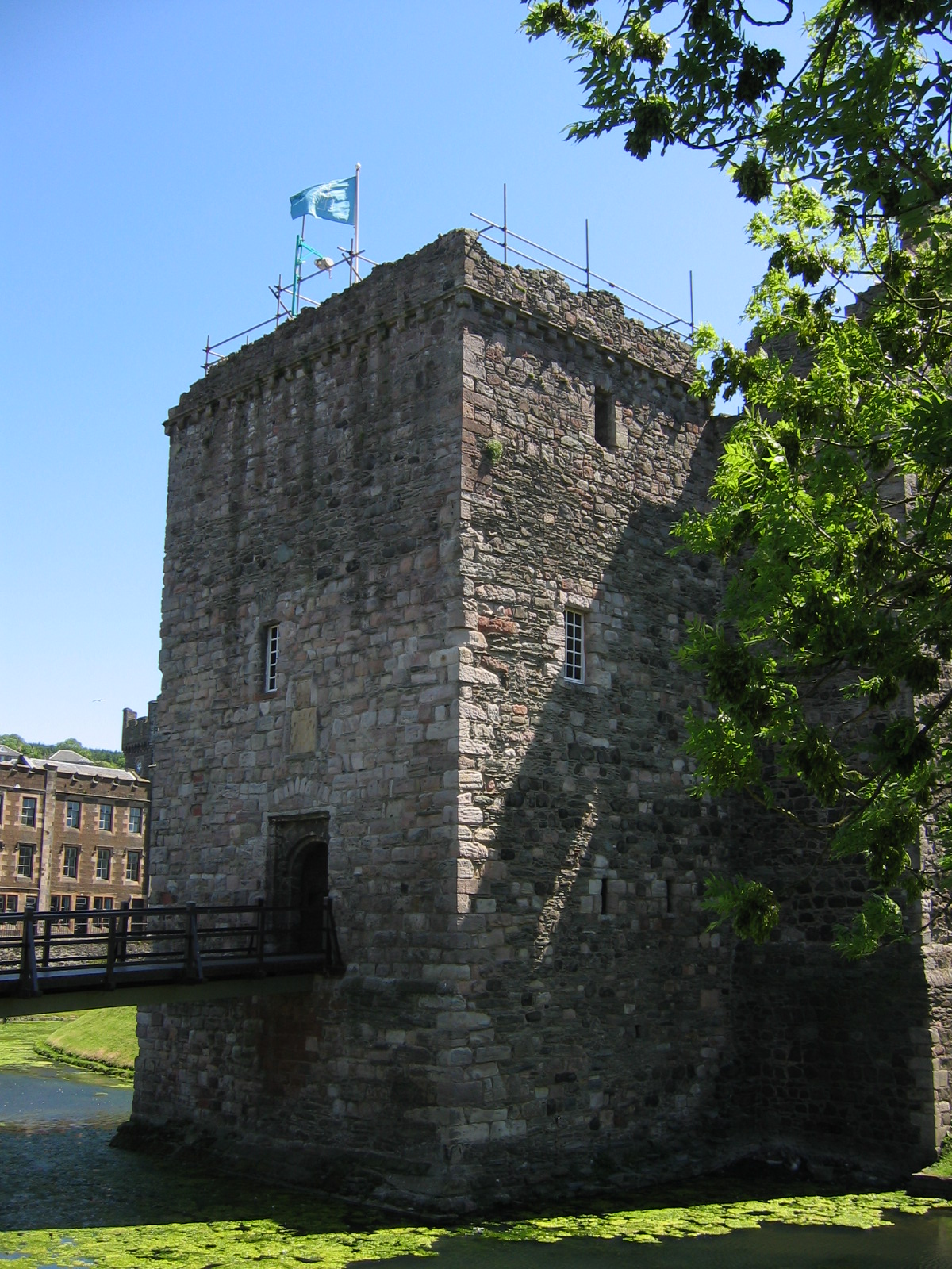 North view of Rothesay Castle, Bute, Scotland, showing the gatehouse